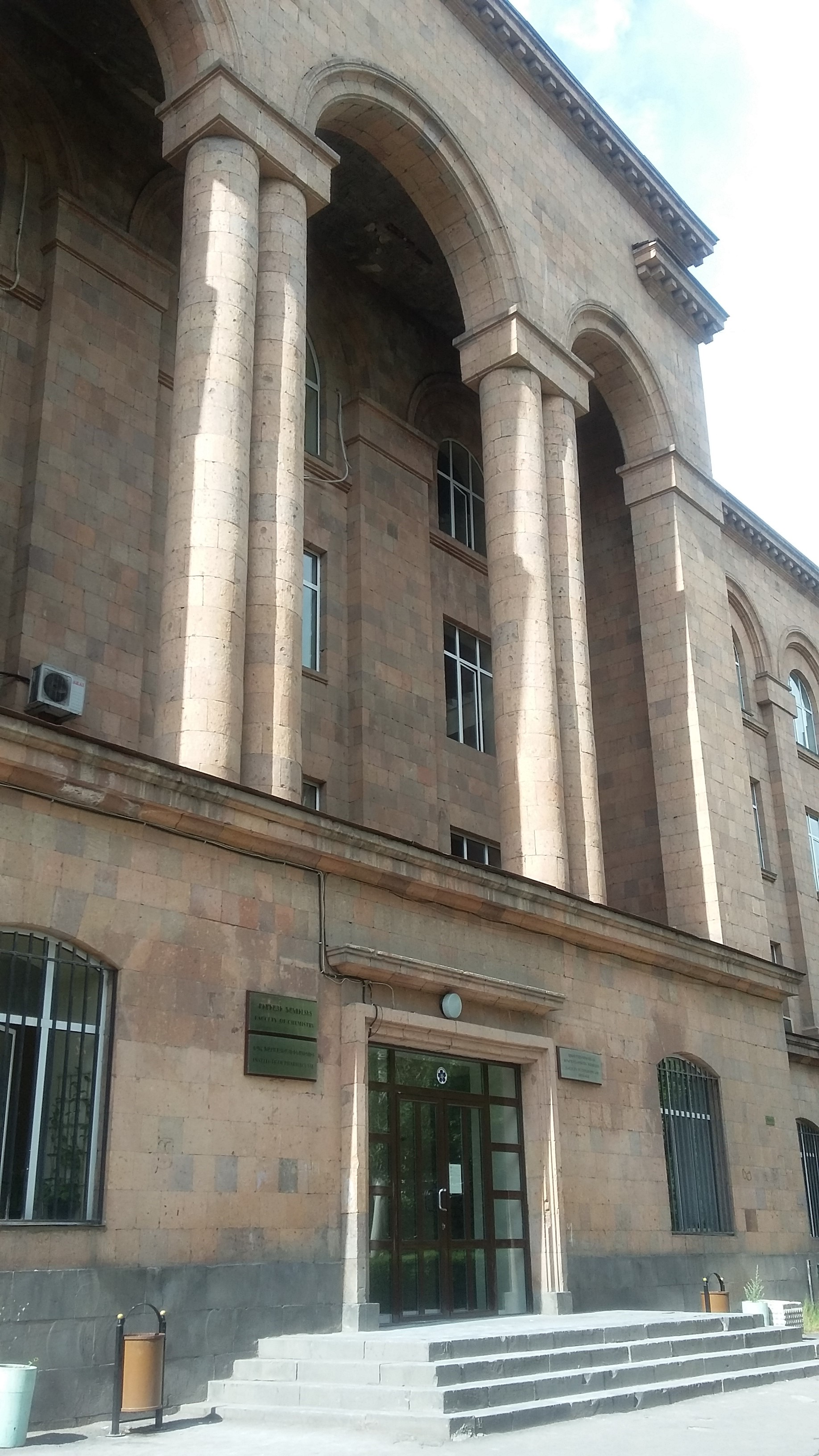 This is a photo of a Faculty of Geography and Geology